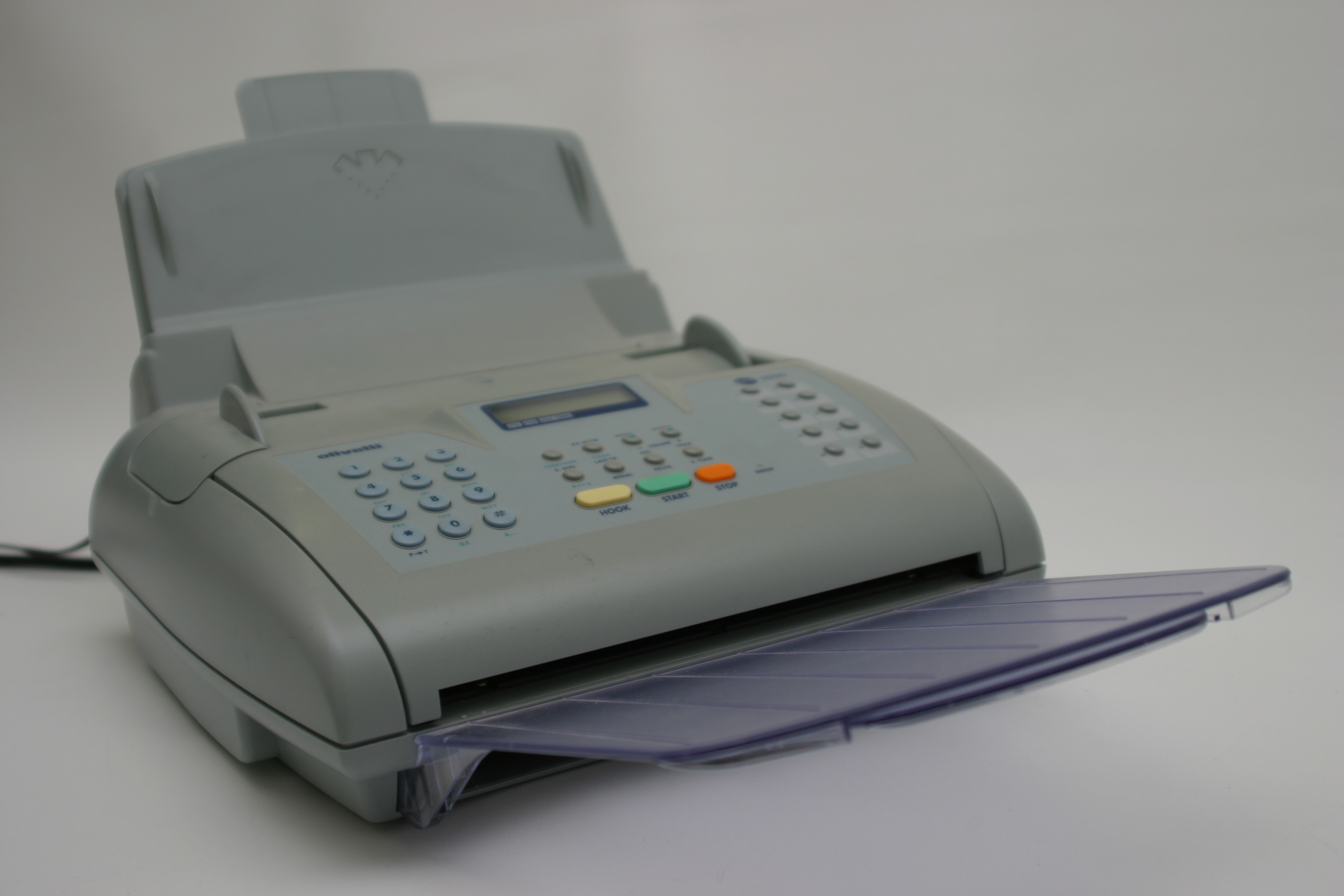 Telefax by Olivetti